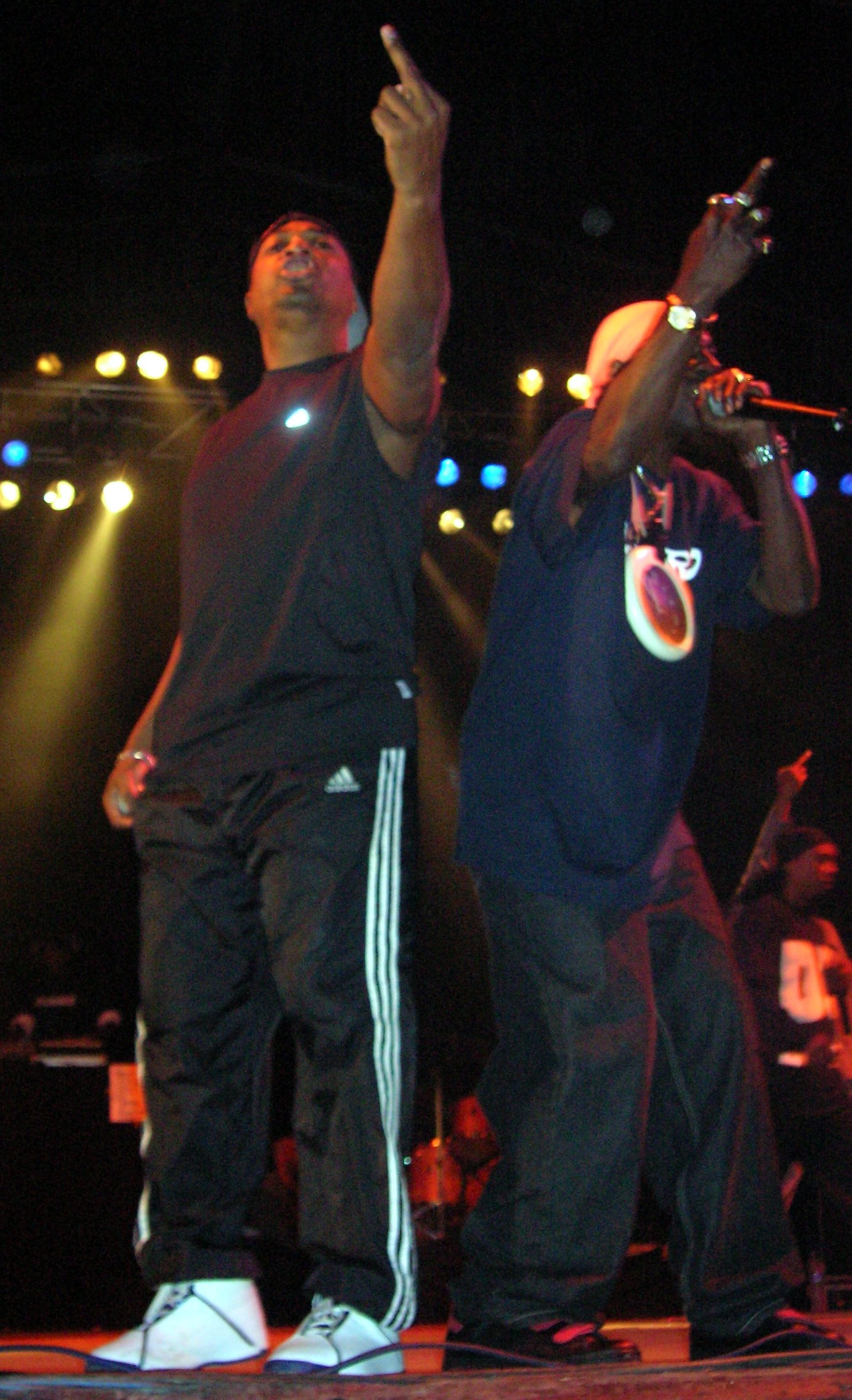 Chuck D and Flavor Flav, from Public Enemy, acting live at the Bilbao Urban Musikaldia, at Vista Alegre bullring, dedicate a finger sign to George Bush.